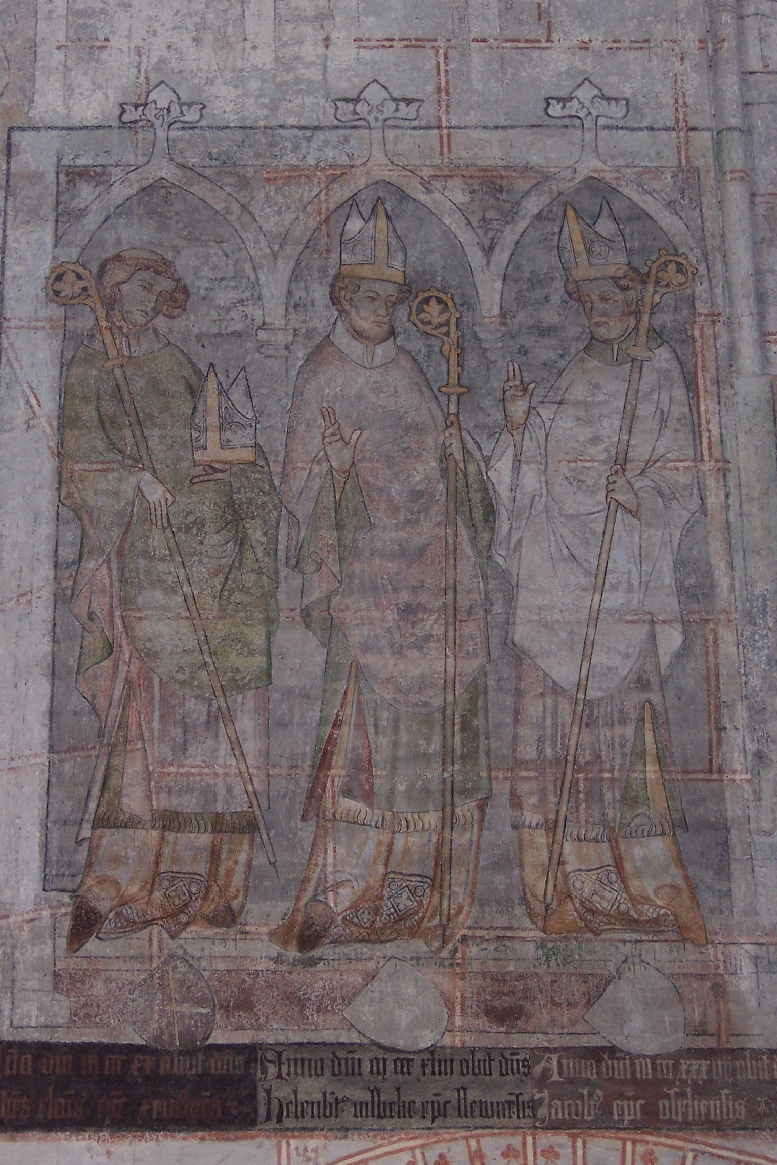 Fresco in St. Katharinen, Lübeck, commemorating bishops Johannes of Reval (bishop-elect, † 1320), Helenbert Visbeke of Schleswig († 1343) and Jakob of Ösel († 1337).